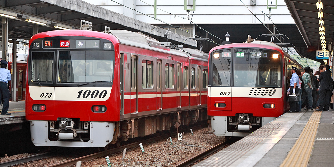 Keikyu N1000 series EMUs, with stainless steel set 1073 on the left and aluminium-bodied set 1057 on the right